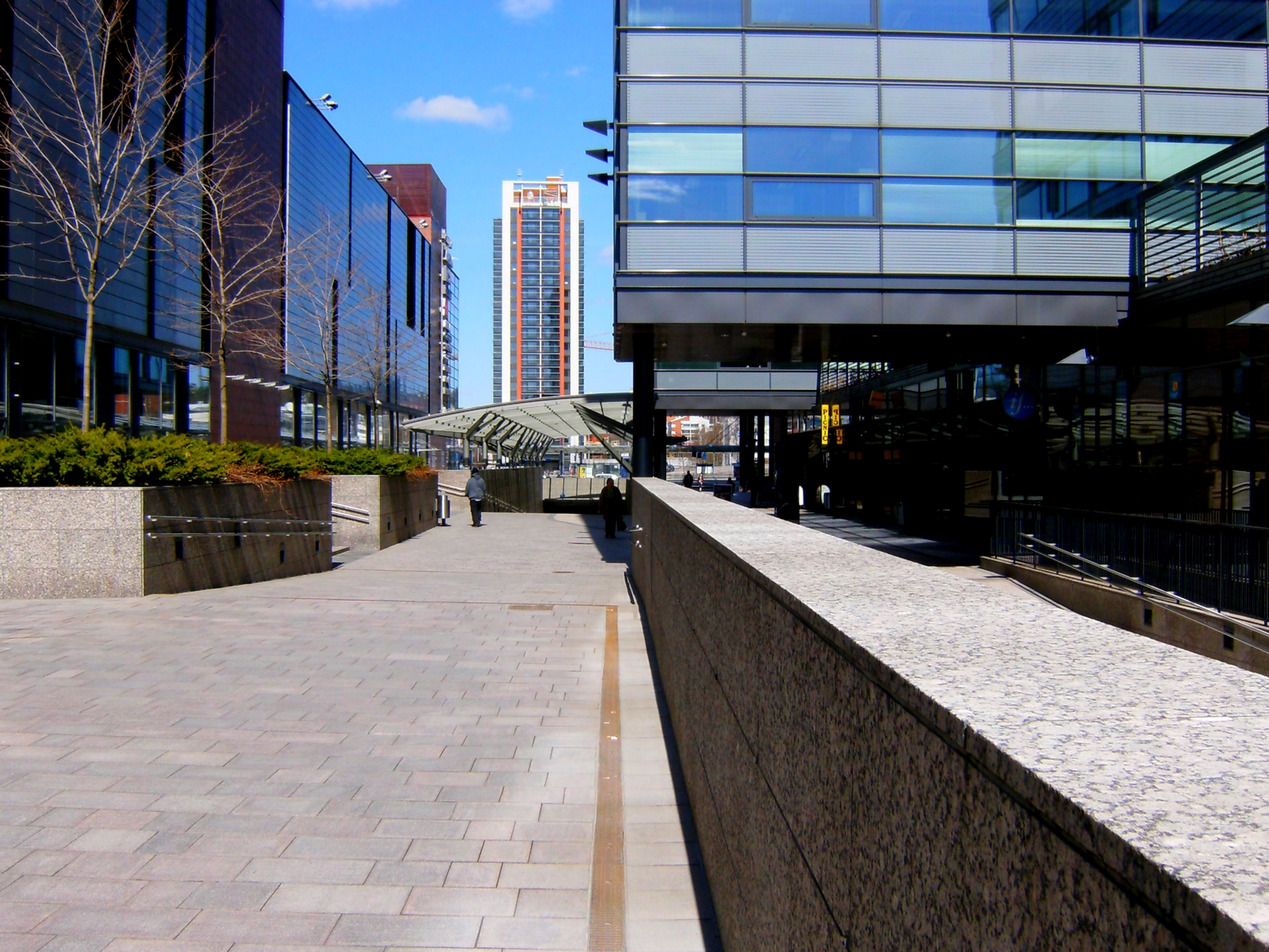 A pedestrian zone, Leppävaara, Espoo